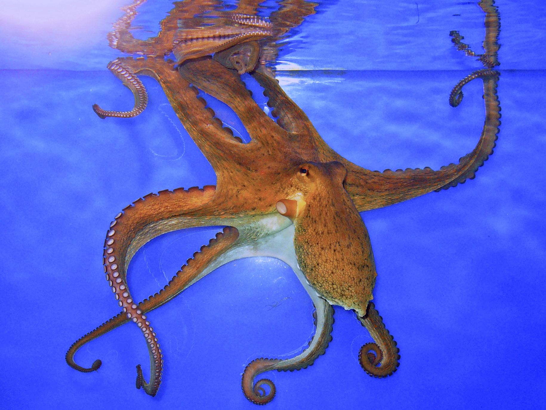 Octopus vulgaris, Octopodidae, Common Octopus; Staatliches Museum für Naturkunde Karlsruhe, Germany.